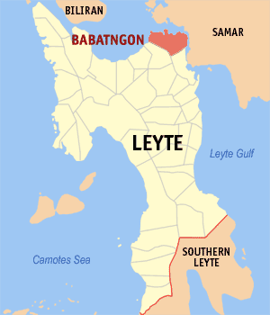 Map of Leyte showing the location of Babatngon